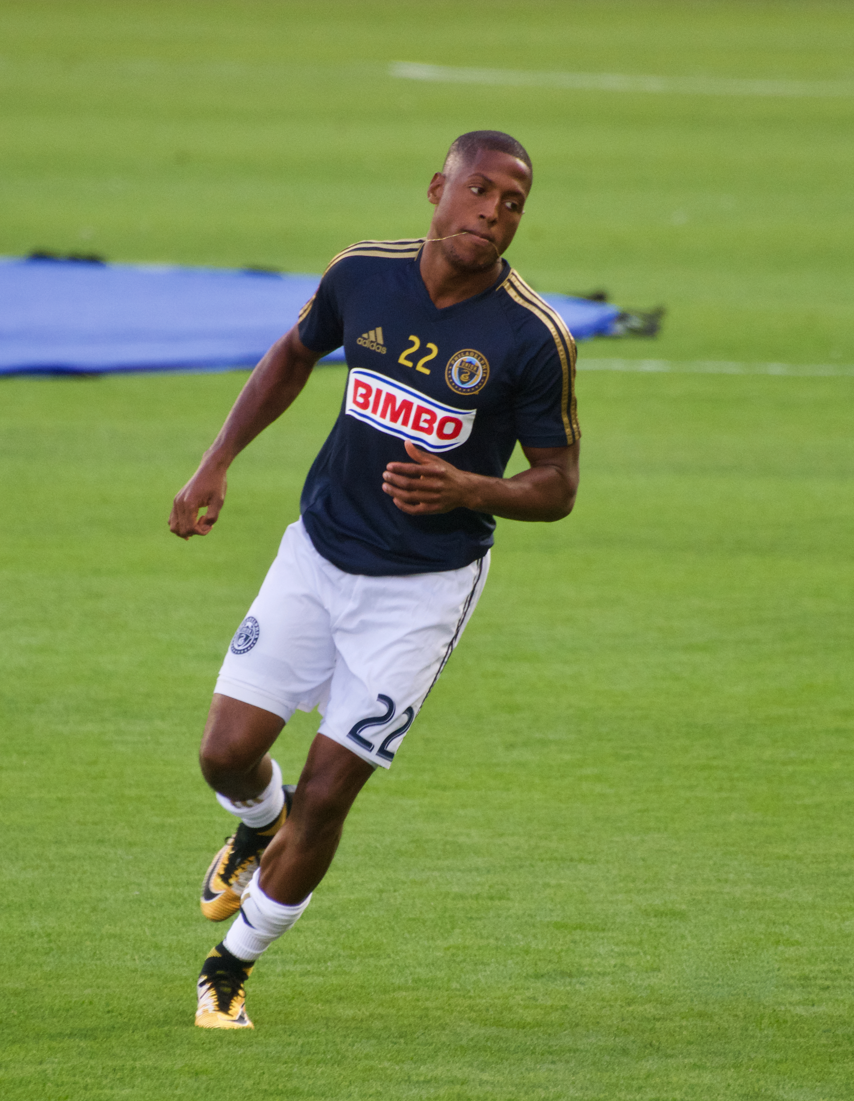 Fafà Picault warming up for Philadelphia Union at Avaya Stadium on 19 August 2017.